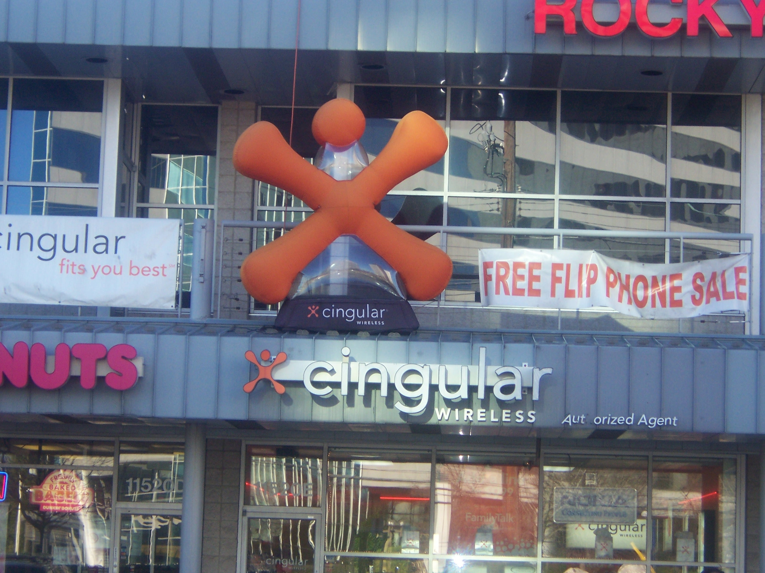 the cingular store in Bethesda